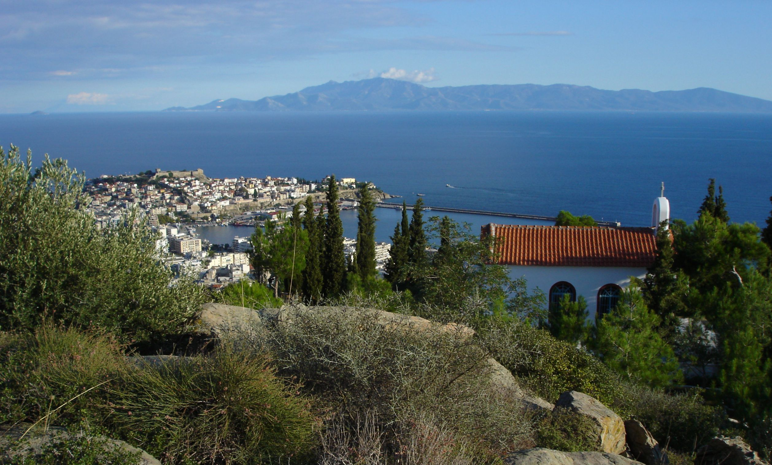 Panorama of Kavala, Greece